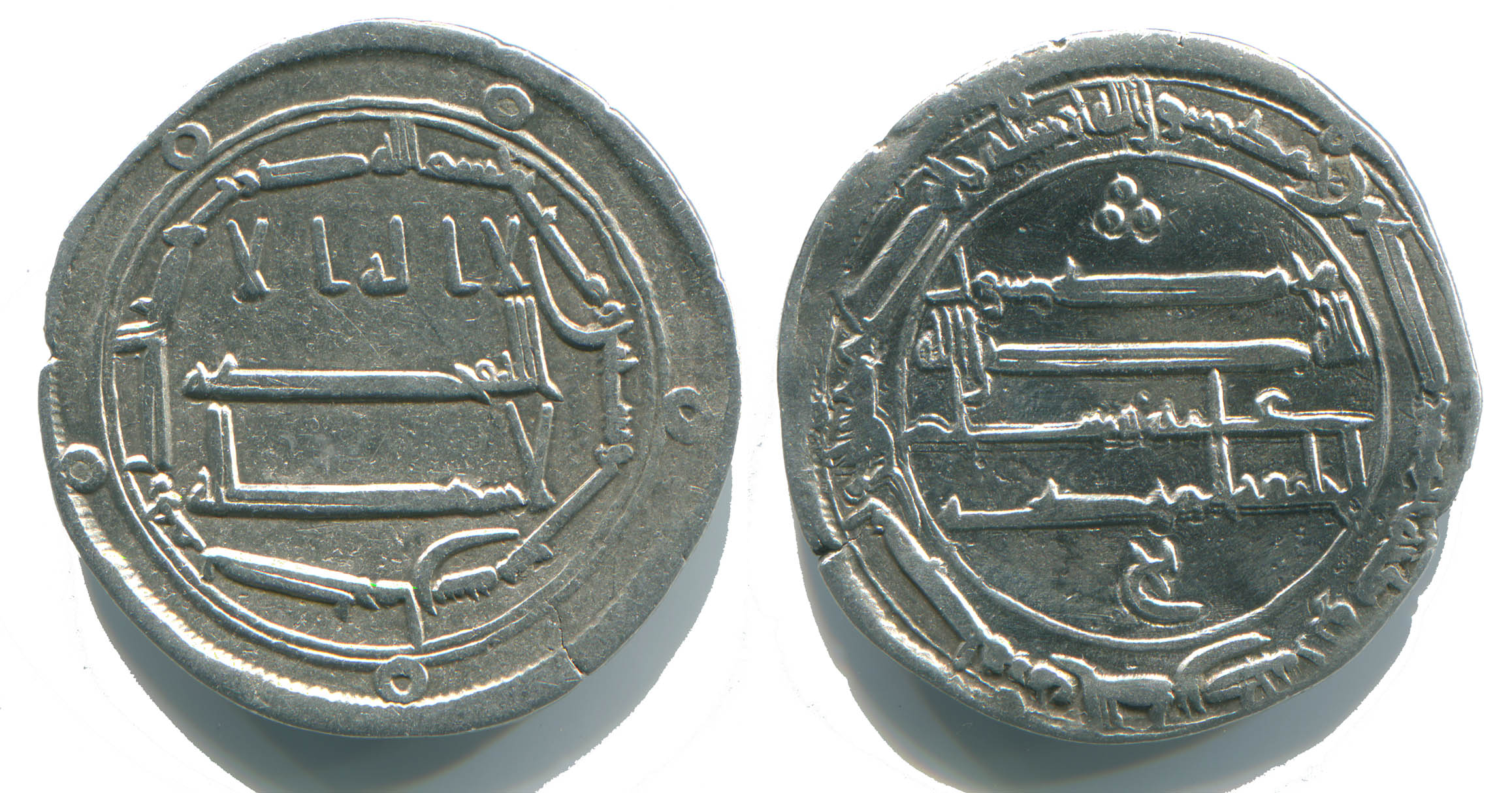 A silver dirham of 'Abbasid caliph al-Madi. Kirman mint, 166 AH (782-783 C.E.). Caliph al-Mahdi is cited at the reverse (right image) in the last row of the field inscription.